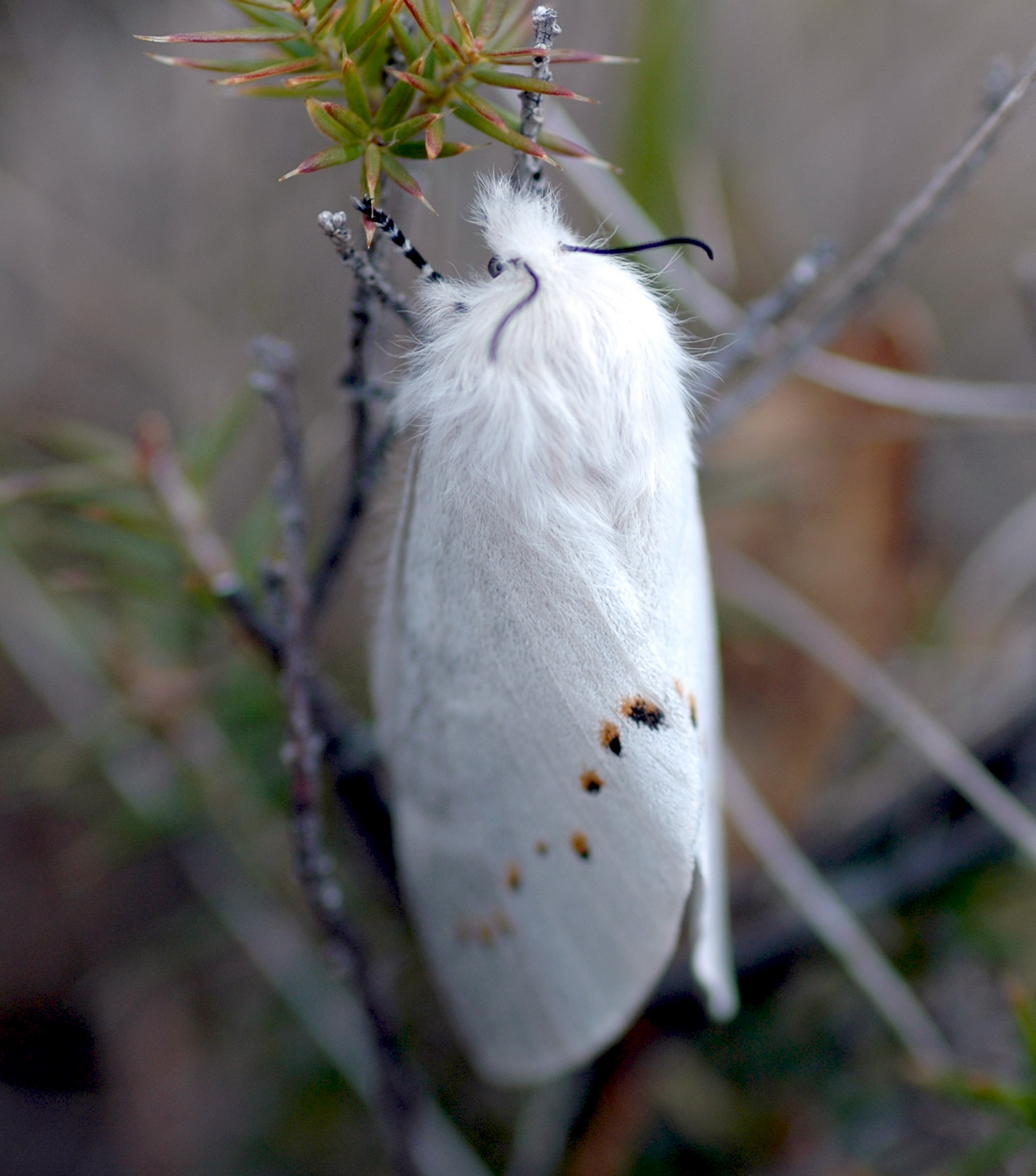 Pinara moth, Pinara cana. Southern Mid-lands of Tasmania